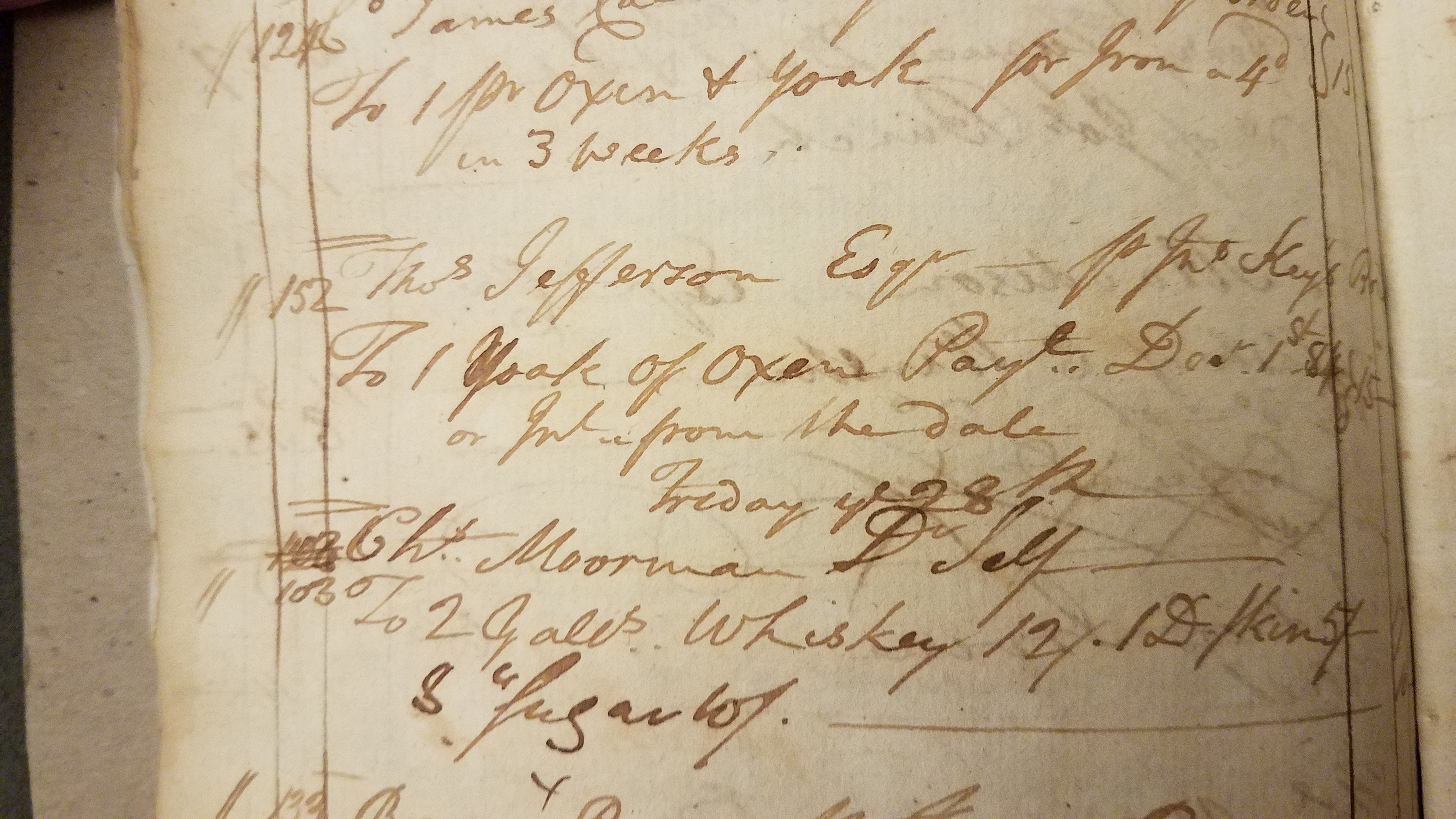 Ledgers from John Hook during a period of May 1784